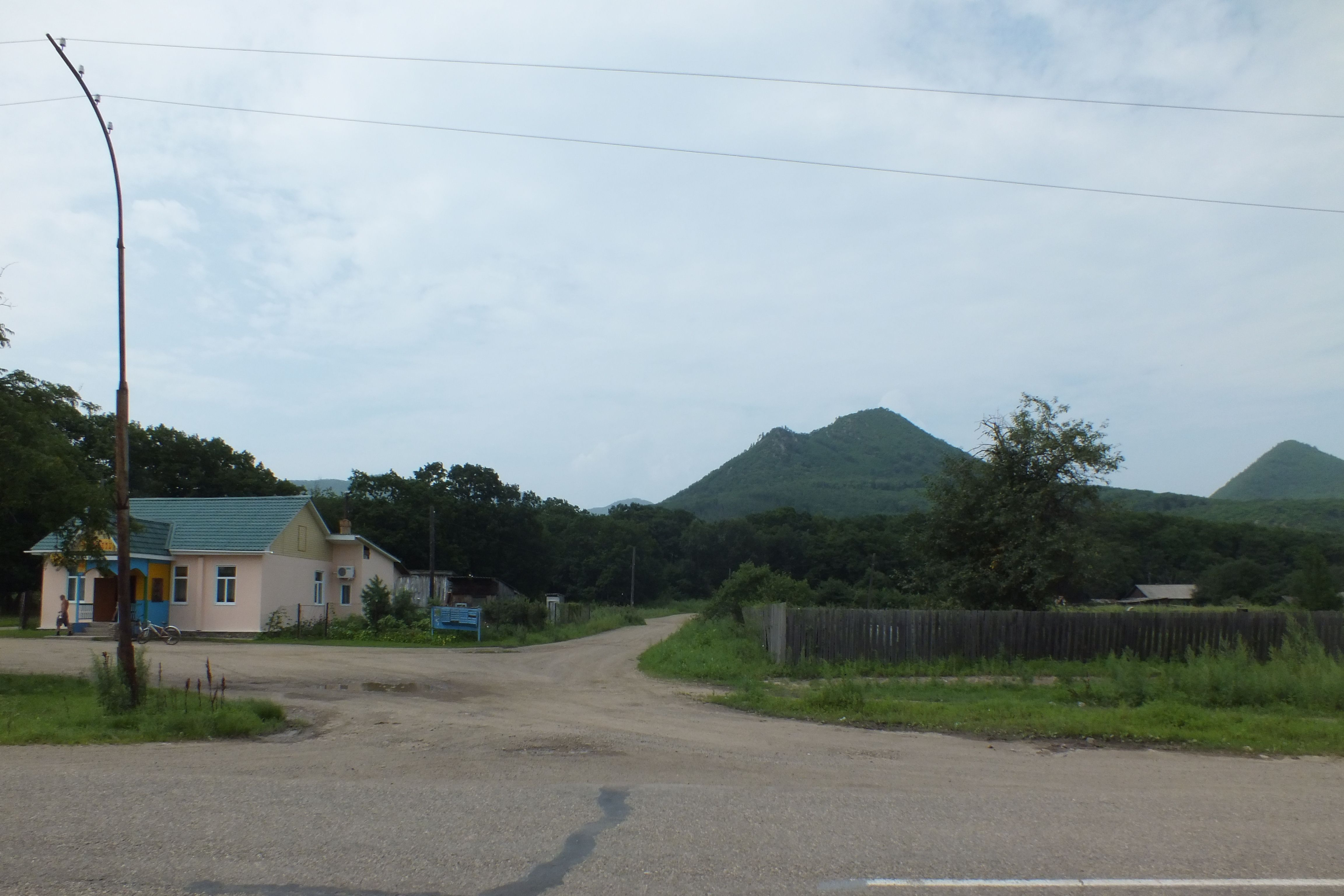 Kavalerovo, Primorsky Krai